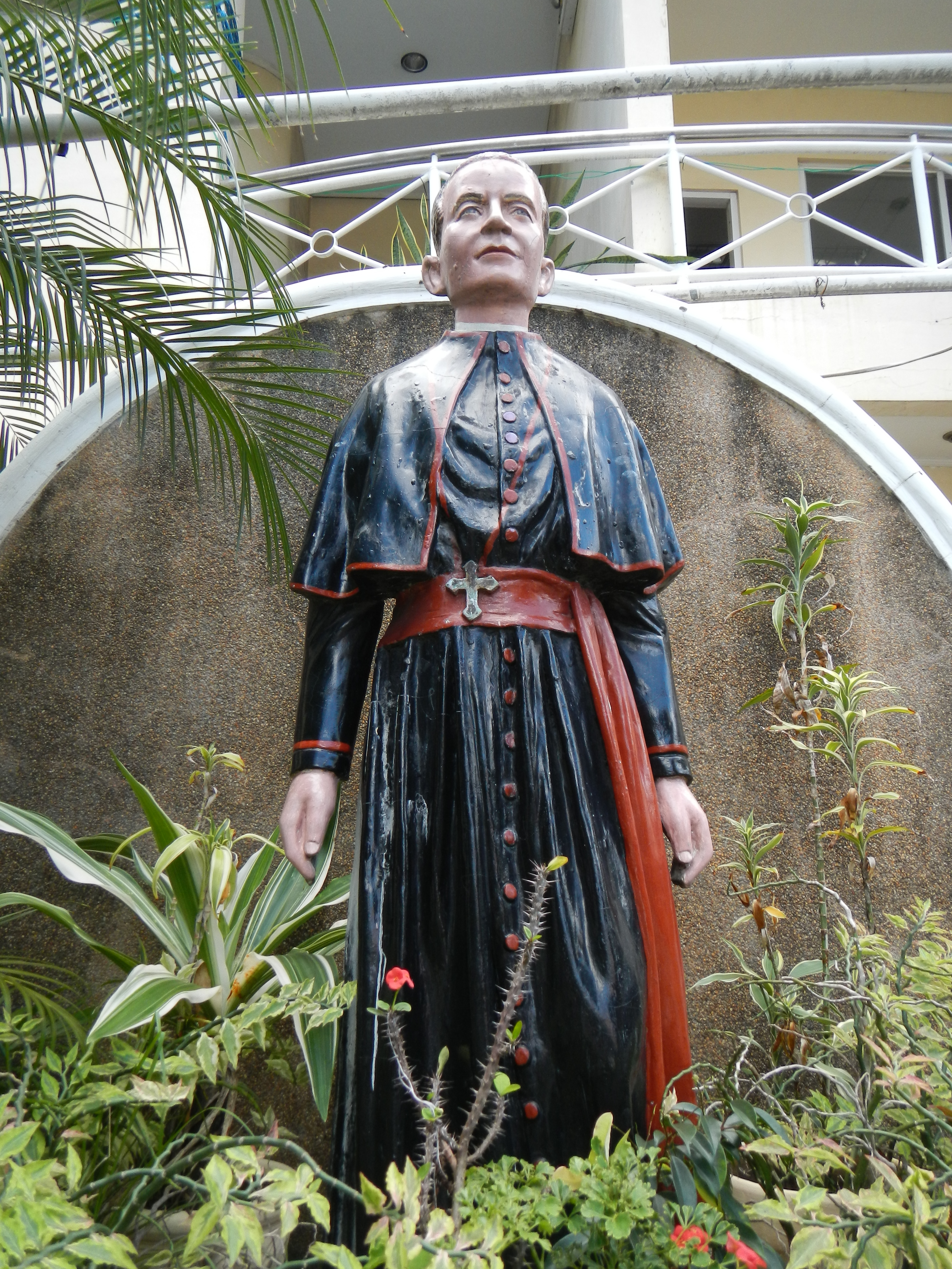 Upload Wizard photos of -- (general description of landmarks, town, church) - Lucena City [1] Maryhill Colleges beside the Lucena Cathedral, the statue of Saint Ferdinand King, Edificio de San Fernando, December 11, 2009, Bishop Alfredo M.A. Obviar, [2] D.D., Building and Statue